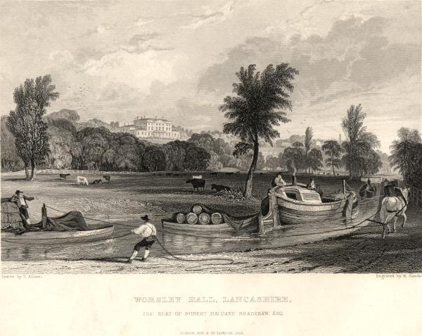 This engraving shows Worsley Brick Hall in a scenic setting. In the foreground, the Bridgewater Canal is bustling with activity, with vessels and cargoes passing by. The Brick Hall was built by the Duke of Bridgewater between 1760 and 1770. It was later demolished in 1840 and was replaced with another residence which became known as Worsley New Hall.